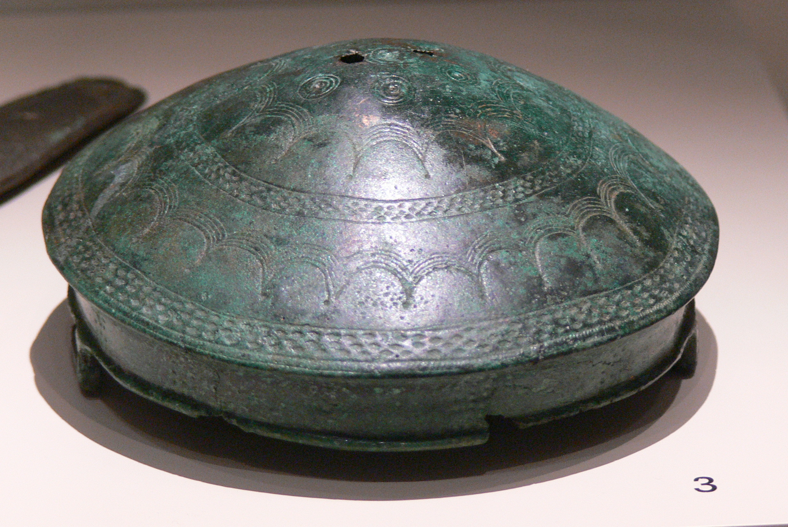 German National Museum ( Nuremberg / Germany ). Bronze belt box, 1200 - 1000 BC, from Dörmte ( Uelzen / Lower Saxony ).